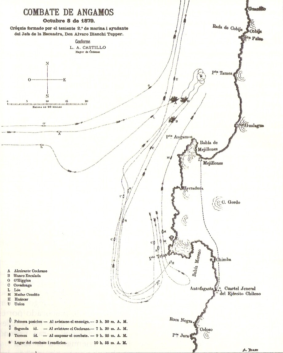 Sketh of the prelude of the naval battle of Angamos. During the War of the Pacific, between Chile against Bolivia and Peru, the peruvian ironclad Huáscar fought against the chilean ironclads Cochrane and Blanco Encalada and the chilean gunboat Covadonga on 8 october of 1879.